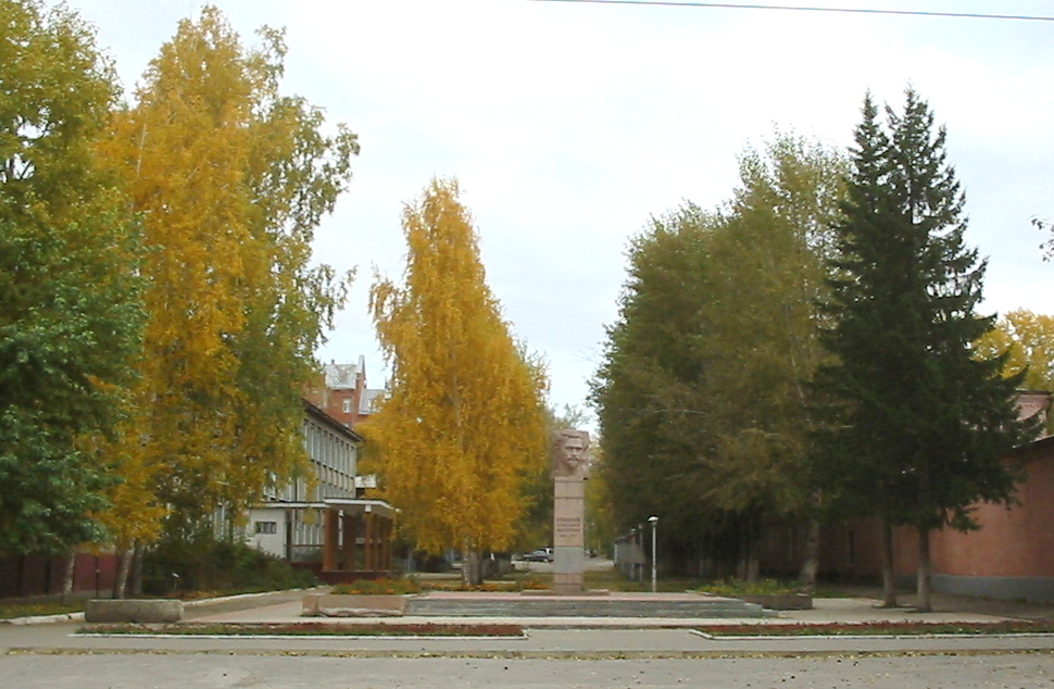 Томск. Пирогова-Ленина. Школа 32. Памятник революционеру Иванову.